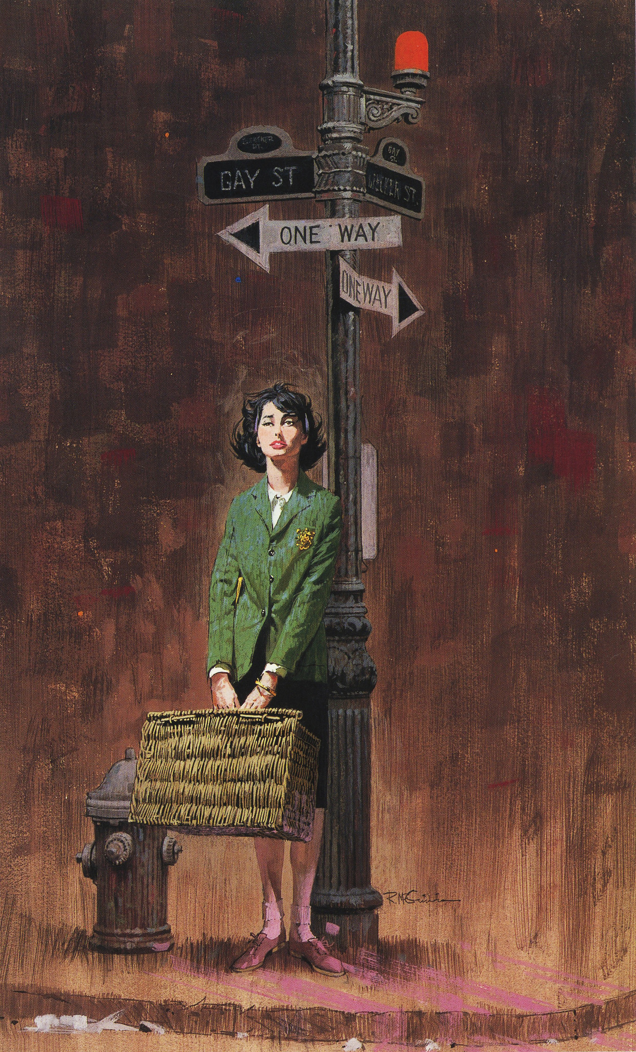 "Beebo Brinker" by Robert McGinnis, 1962. Cover of Beebo Brinker by Ann Bannon.